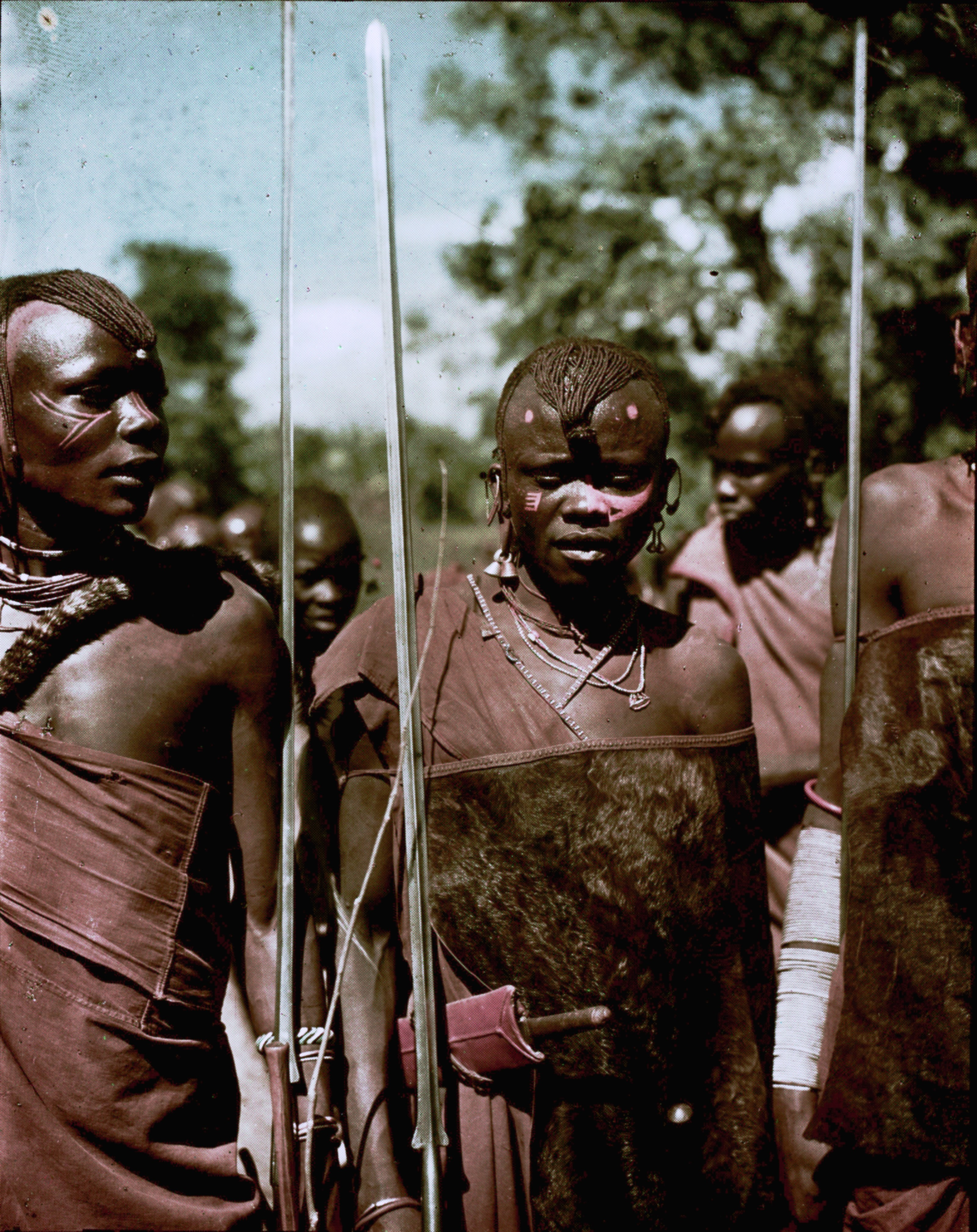 Arusha wedding dancers.